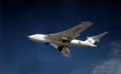 A Royal Air Force Handley Page Victor B.1 (s/n XA922) with the undercarriage down and preparing for a landing. XA922 was delivered on 29 November 1957 and sold as scrap on 27 April 1973.